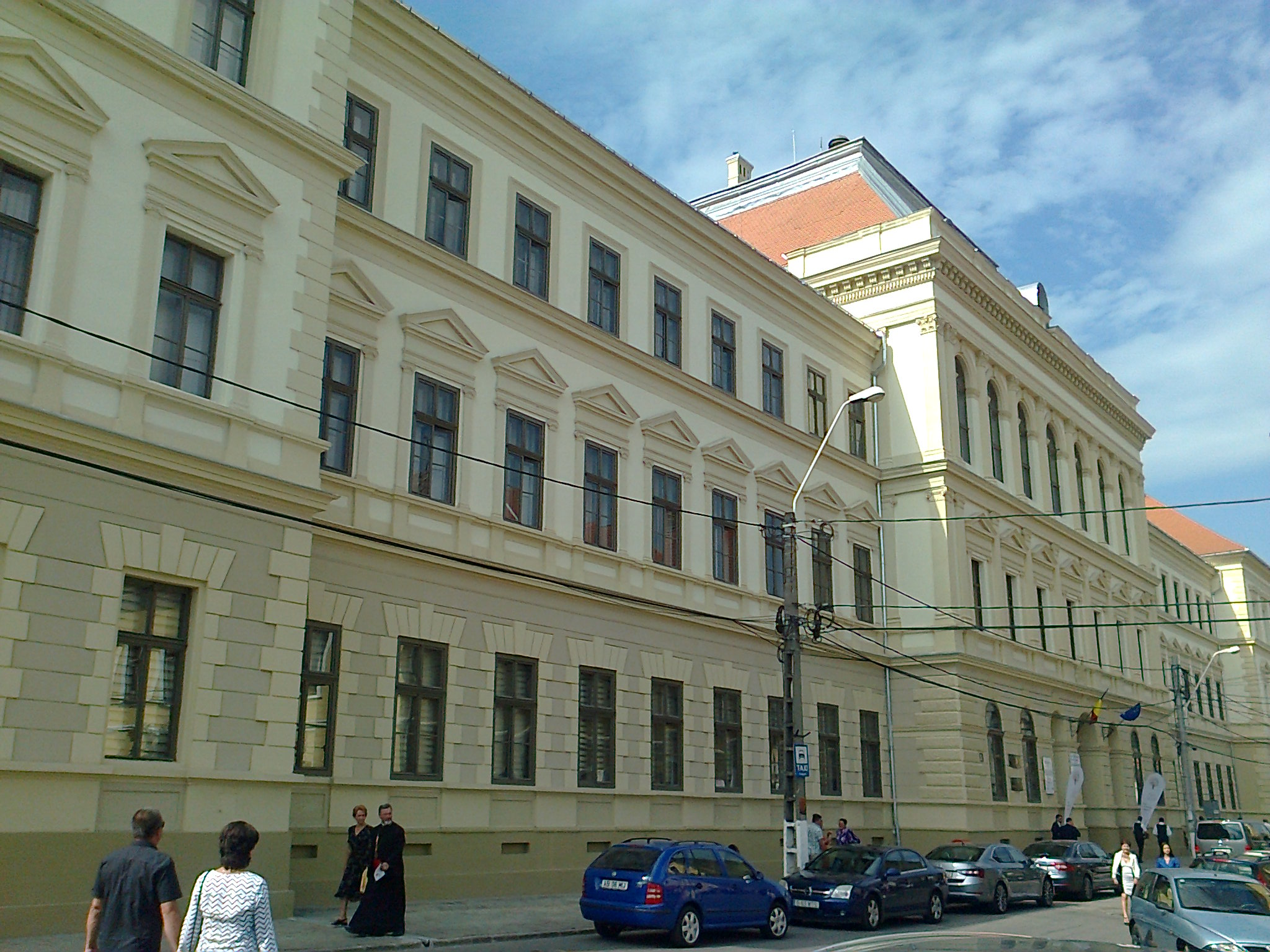 Bethlen Gábor Highschool in Aiud (Romania)